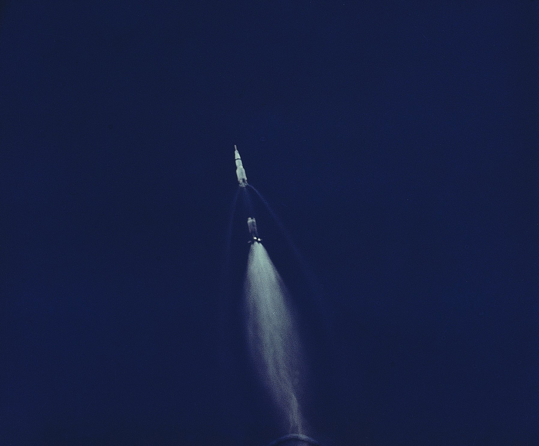 70mm Airborne Lightweight Optical Tracking System (ALOTS) camera, mounted in a pod on a cargo door of a U.S. Air Force EC-135N aircraft, photographed this event in the early moments of the Apollo 11 launch. The mated Apollo spacecraft and Saturn V second (S-II) and third (S-IVB) stages pull away from the expended first (S-1C) stage. Separation occurred at an altitude of about 38 miles, some 55 miles downrange from Cape Kennedy. The aircraft's pod is 20 feet long and 5 feet in diameter. The crew of the Apollo 11 lunar landing mission are astronauts Neil A. Armstrong, Michael Collins, and Edwin E. Aldrin Jr.